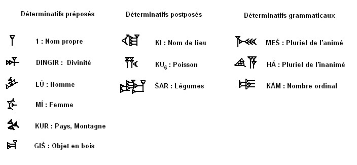 French-language listing of cuneiform determinatives. Partial list in